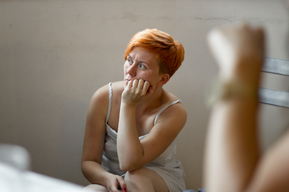 Anna Hutsol, in Paris in july 2012.